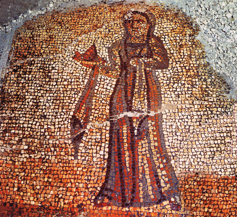 A floor mosaic from Dzalisi, Georgia